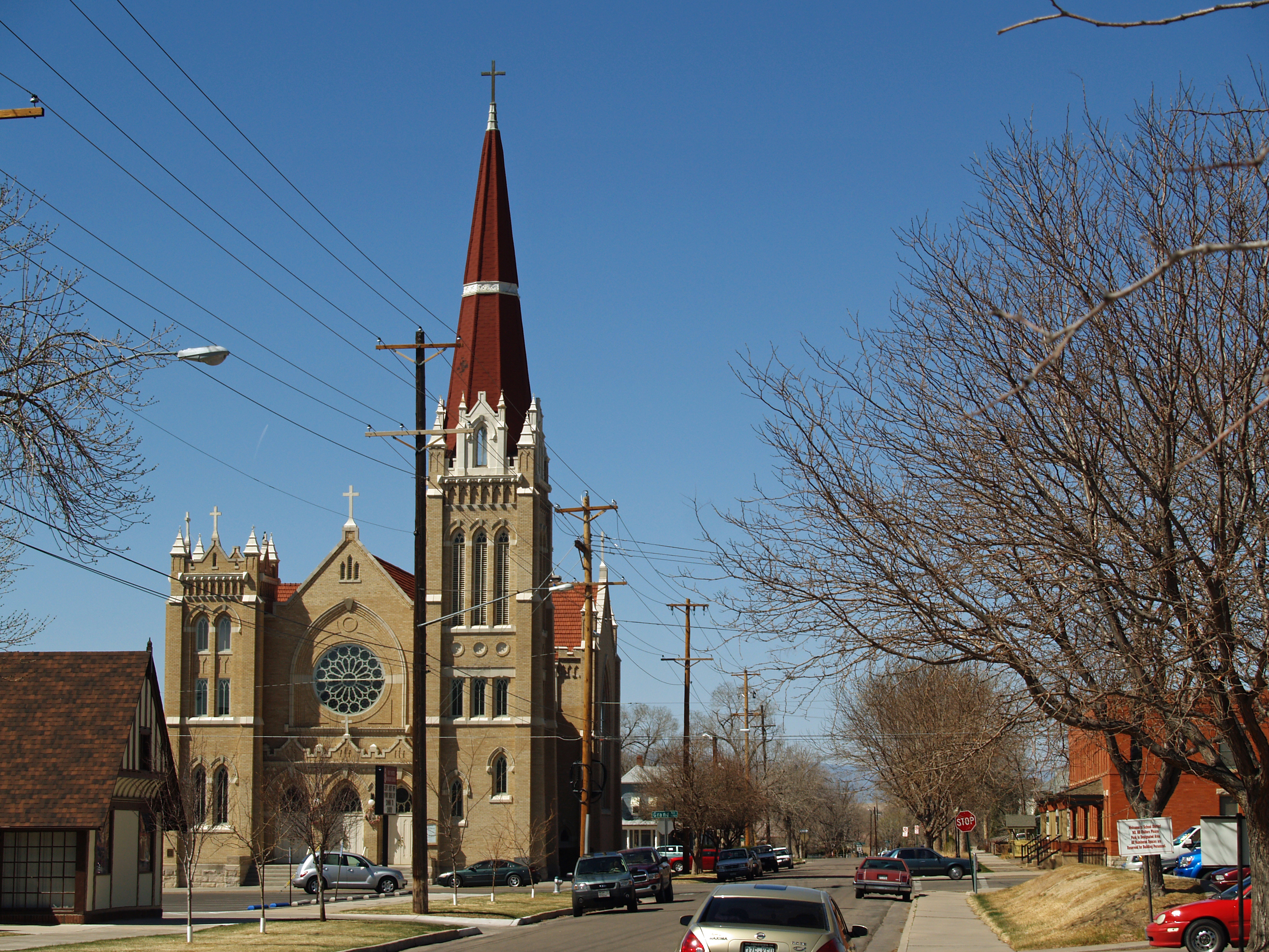 Cathedral of the Sacred Heart in downtown Pueblo, Colorado.